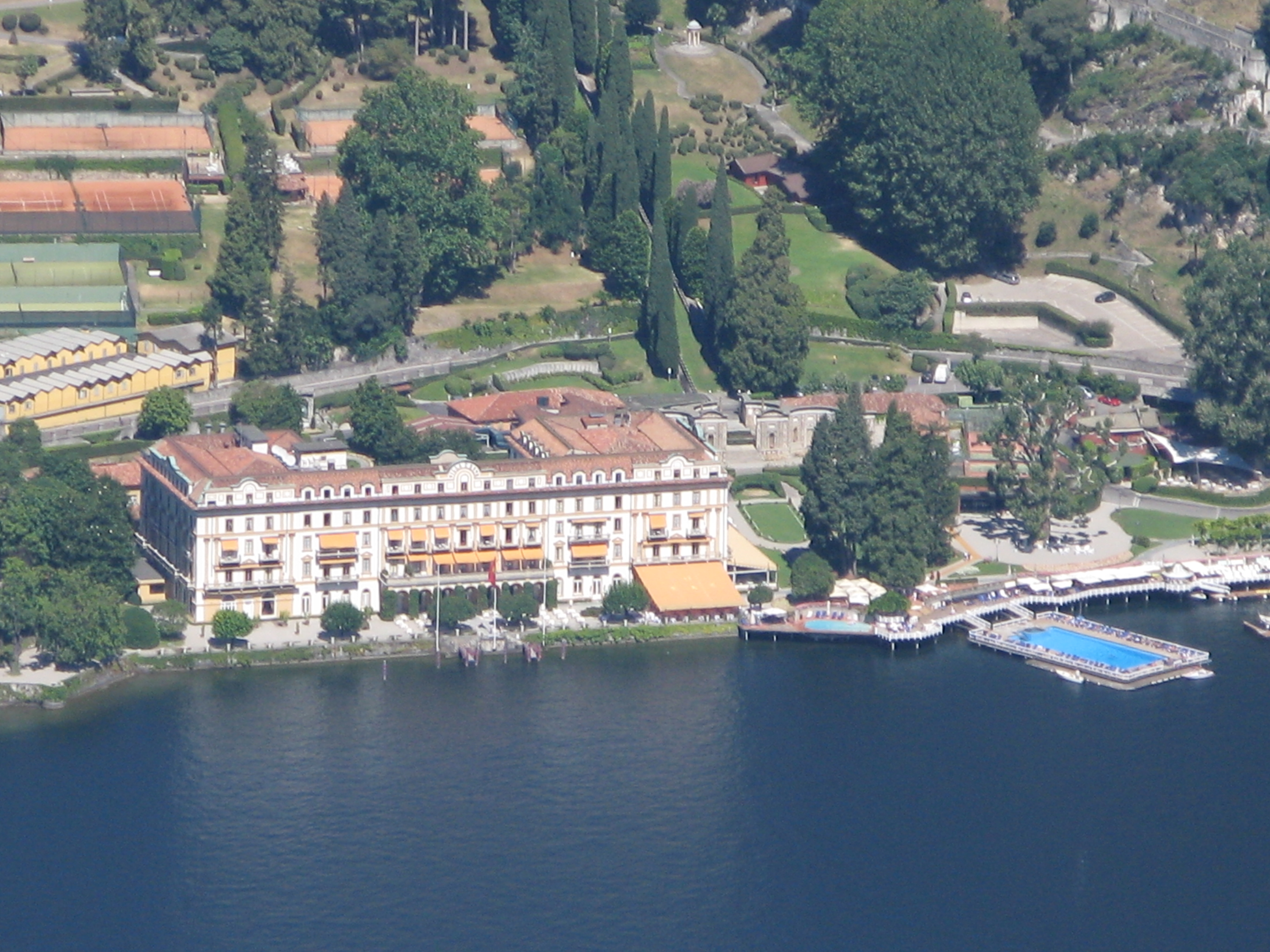 Villa d'Este, Cernobbio, Italy seen from Brunate